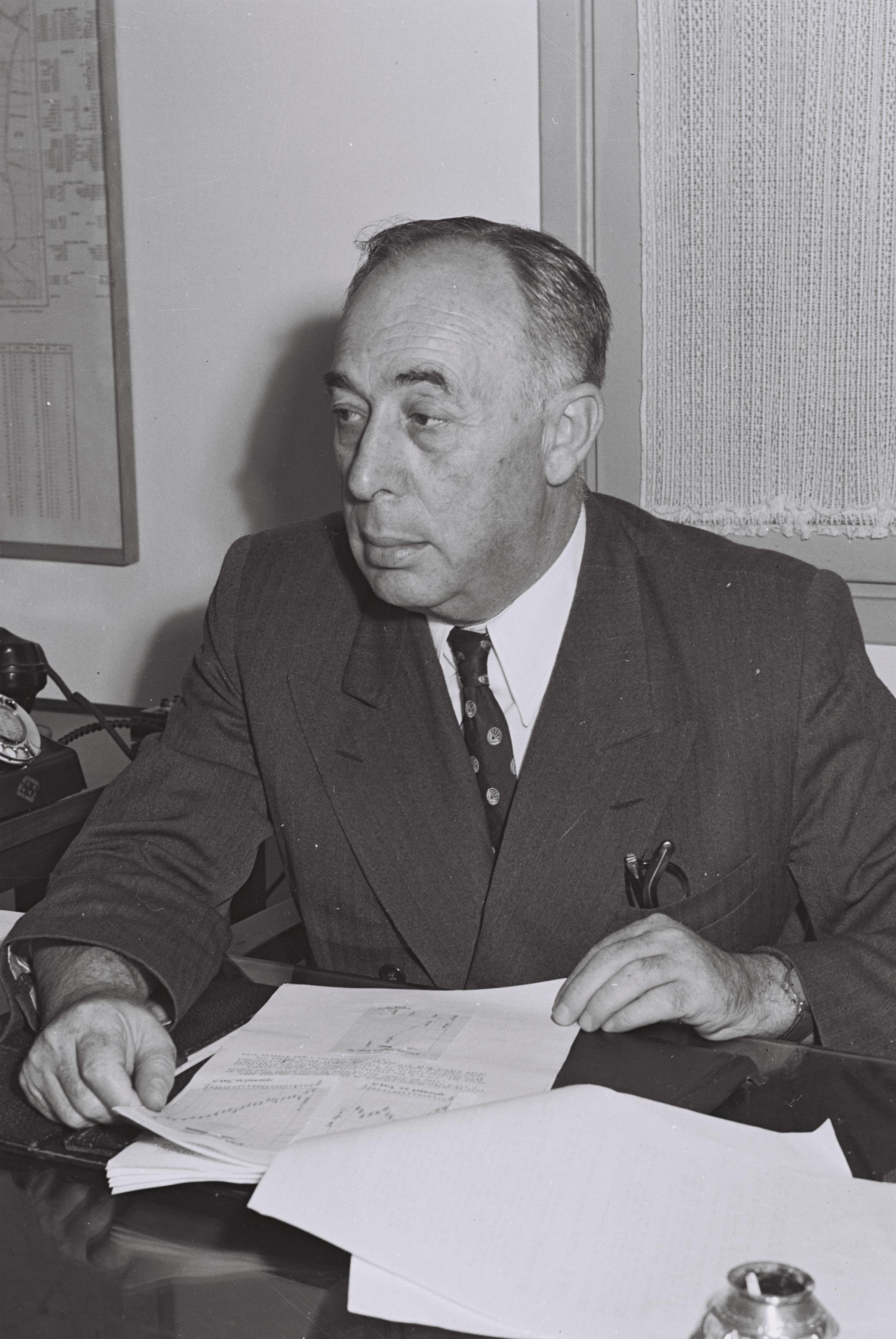 Portrait, Israel Rokach, mayor of Tel Aviv (Gen. Zionists).